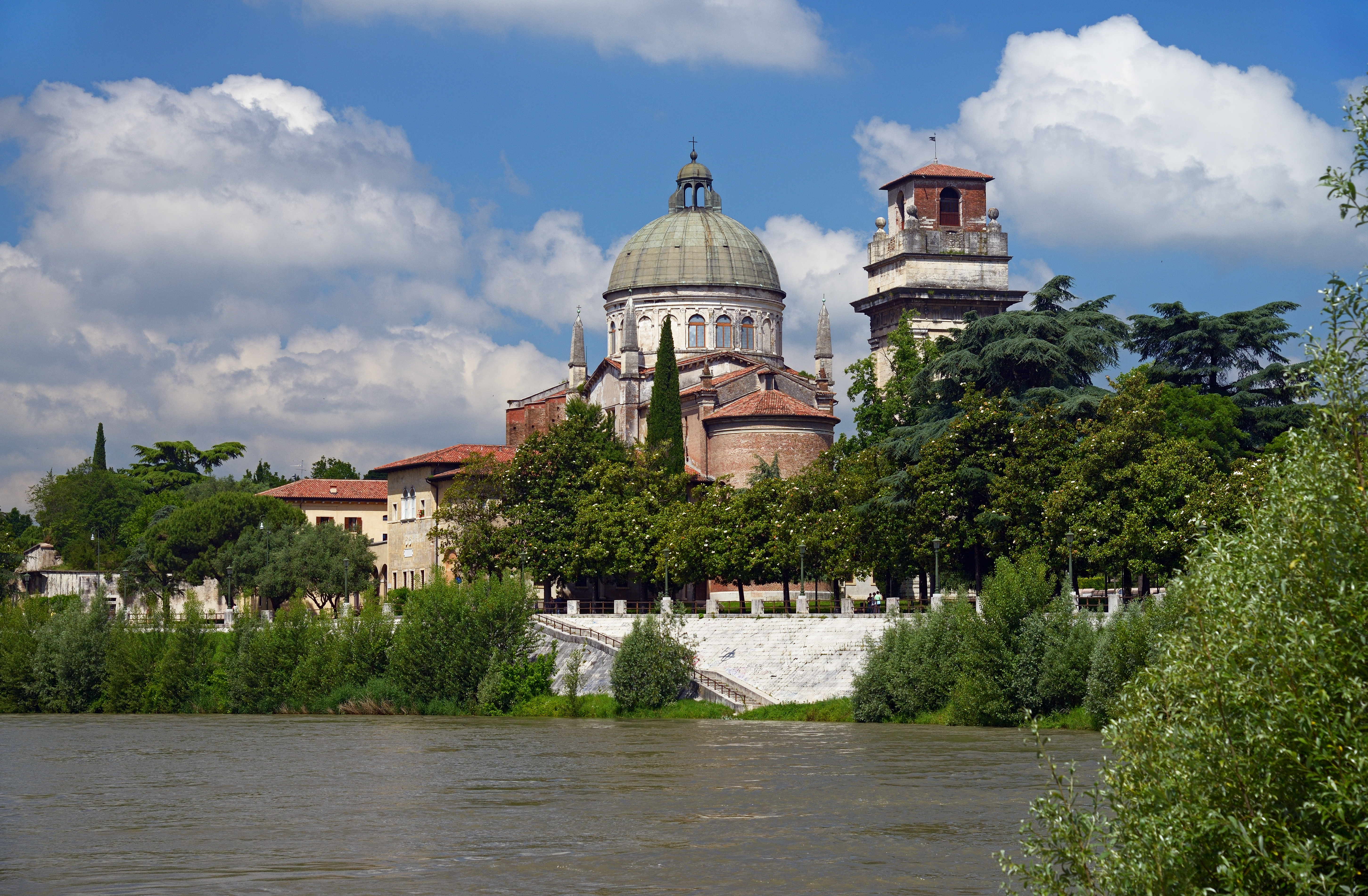 Campanile San Giorgio in Braida .Verona, Italy